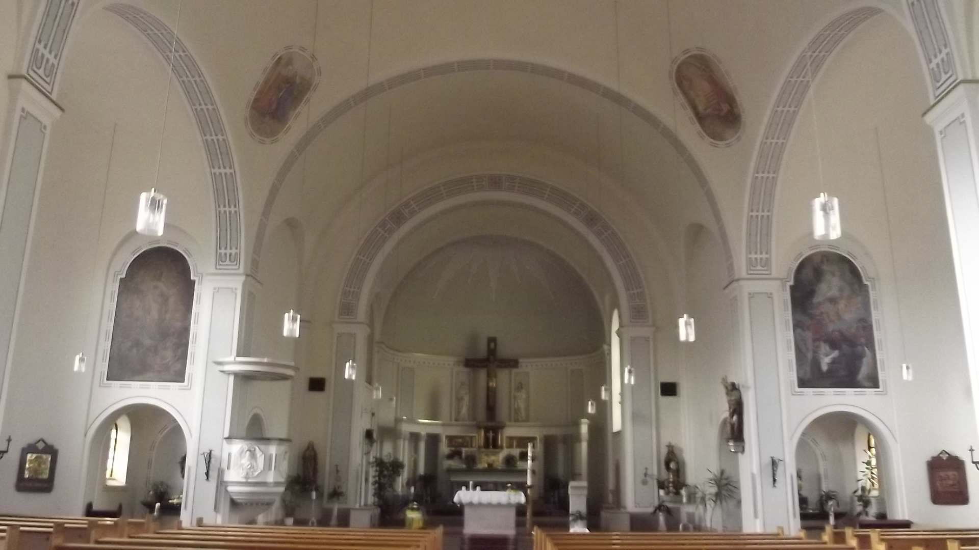 Interior of the roman catholic church in Piesbach, Saarland